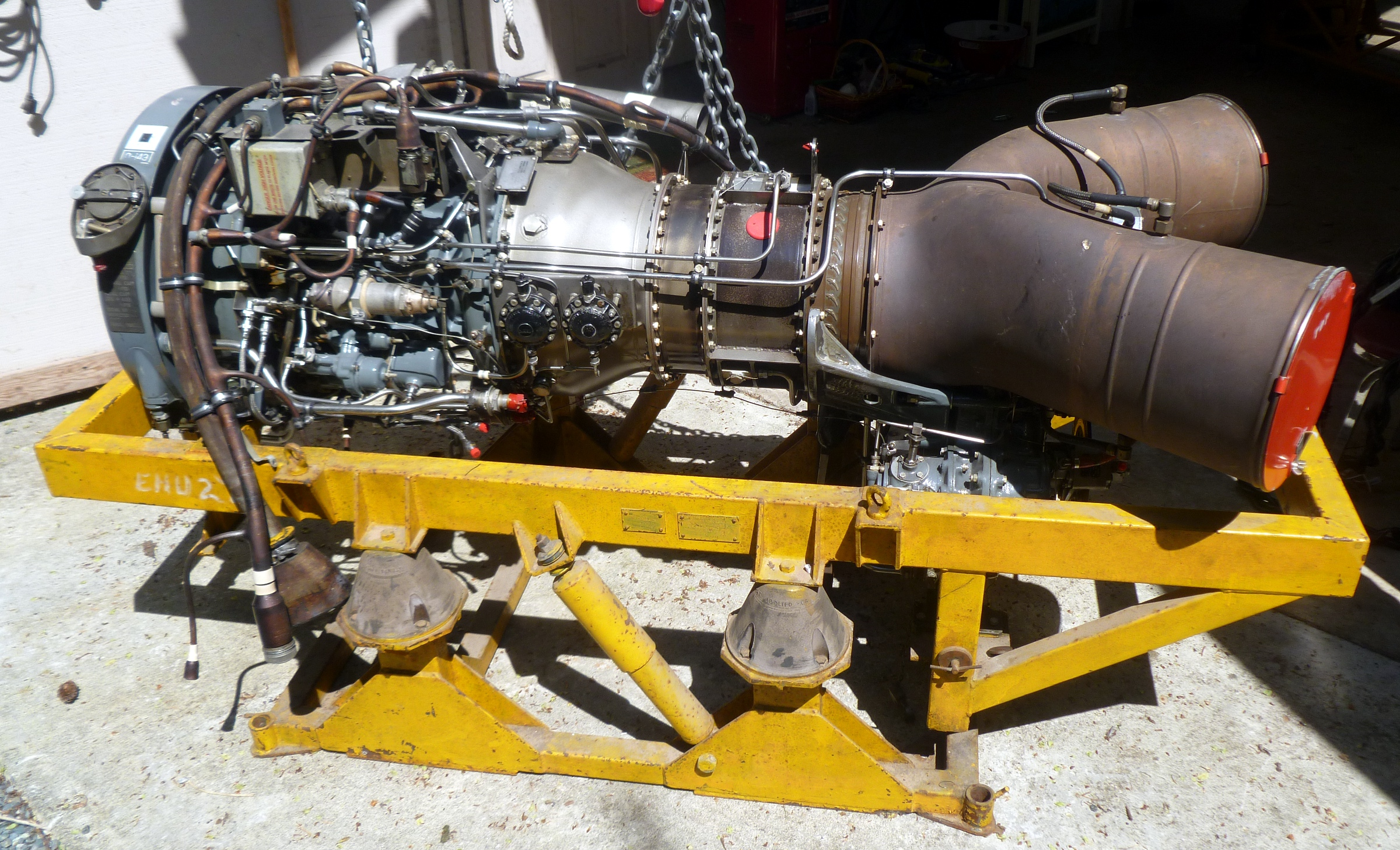 Photo of a Rolls Royce Nimbus Mark 105 turboshaft engine. View is of the port side, mounted on the original test stand.